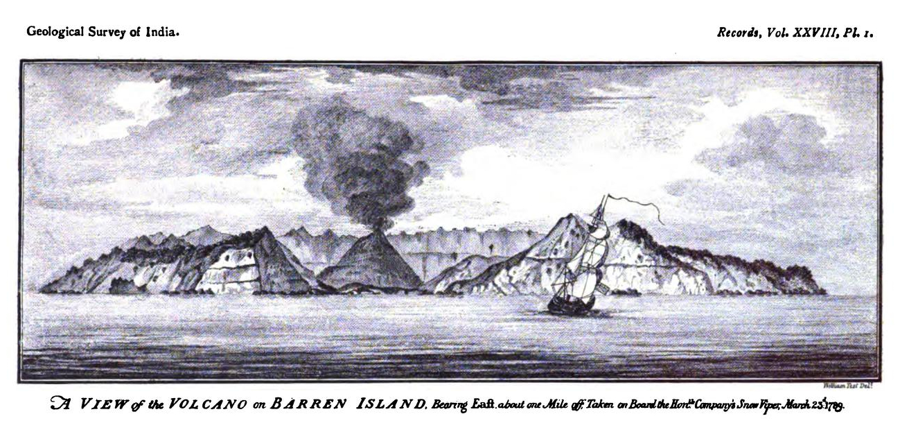 Barren Island from a sketch made in 1789